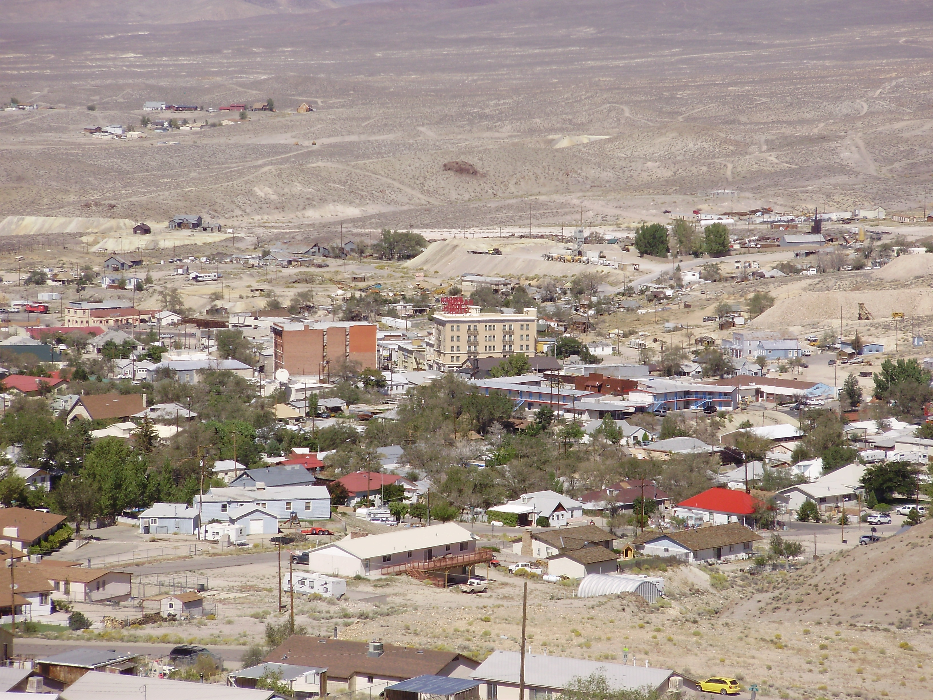 View of downtown Tonopah, Nevada from the southwest on September 19th 2013